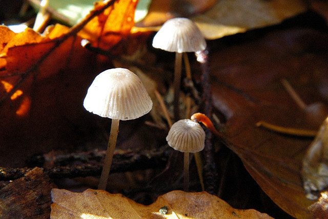 Mycena olida from Commanster, Belgium. If you think this is a different taxon, please contact James Lindsey.